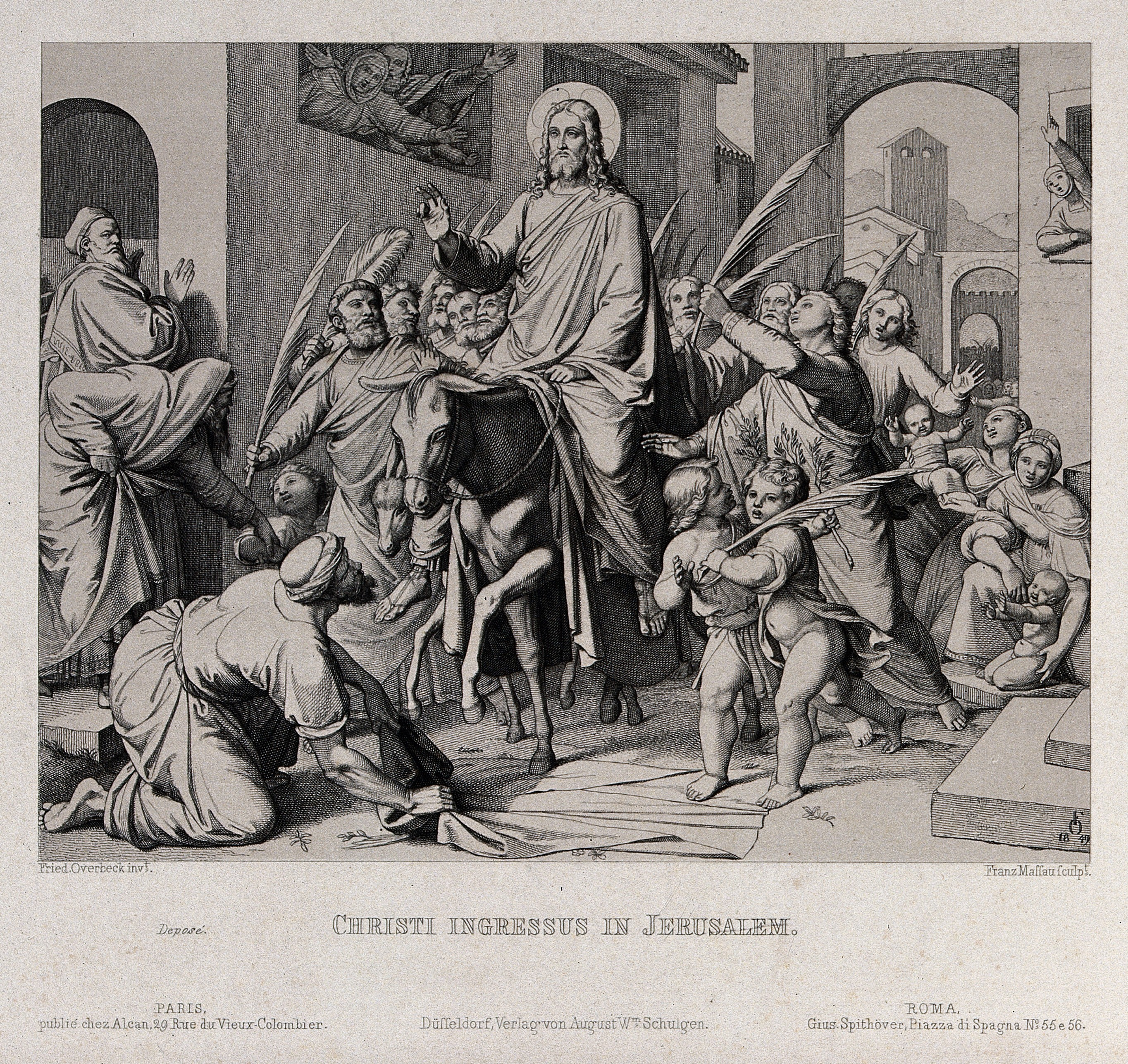 Christ enters Jerusalem on an ass. Etching by F.P. Massau after J.F. Overbeck, 1849. Iconographic Collections Keywords: Franz Paul Massau; Jesus Christ; Johann Friedrich Overbeck